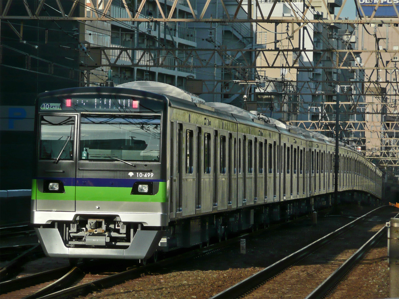 Toei Subway 10-300 series EMU set 10-490